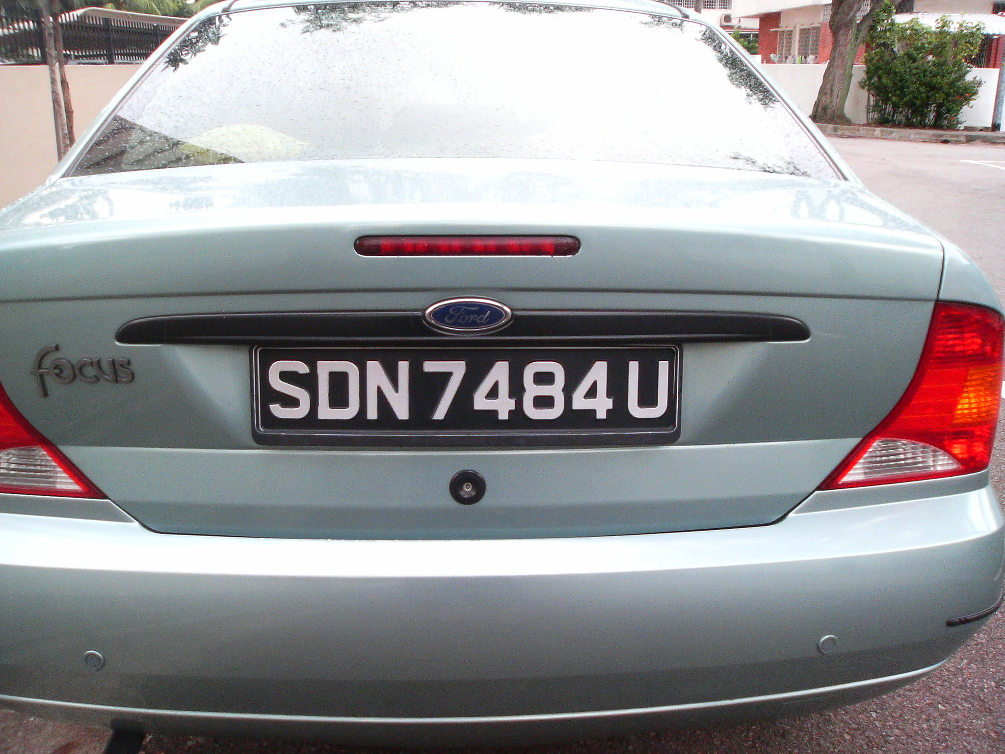 A Singaporean white-on-black rear vehicle registration plate on a silver Ford Focus car.